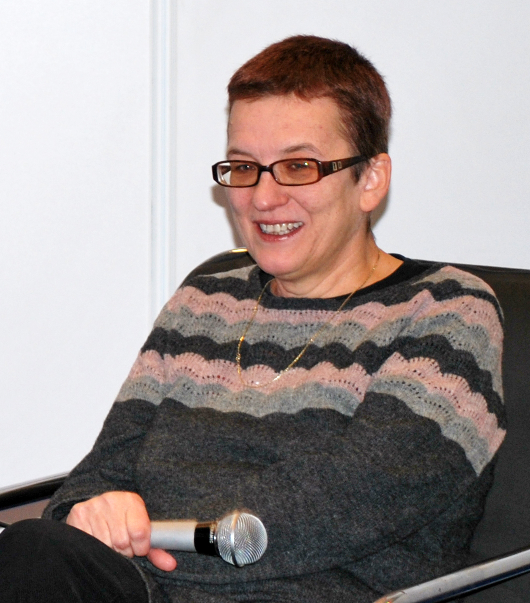 Kinga Dunin, polish writer, sociologist and feminist, Salon Ciekawej Ksiazki, Łódź December 2011